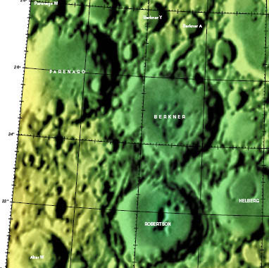 Crater Berkner on the Color-coded LAC 54 from the USGS Digital Atlas